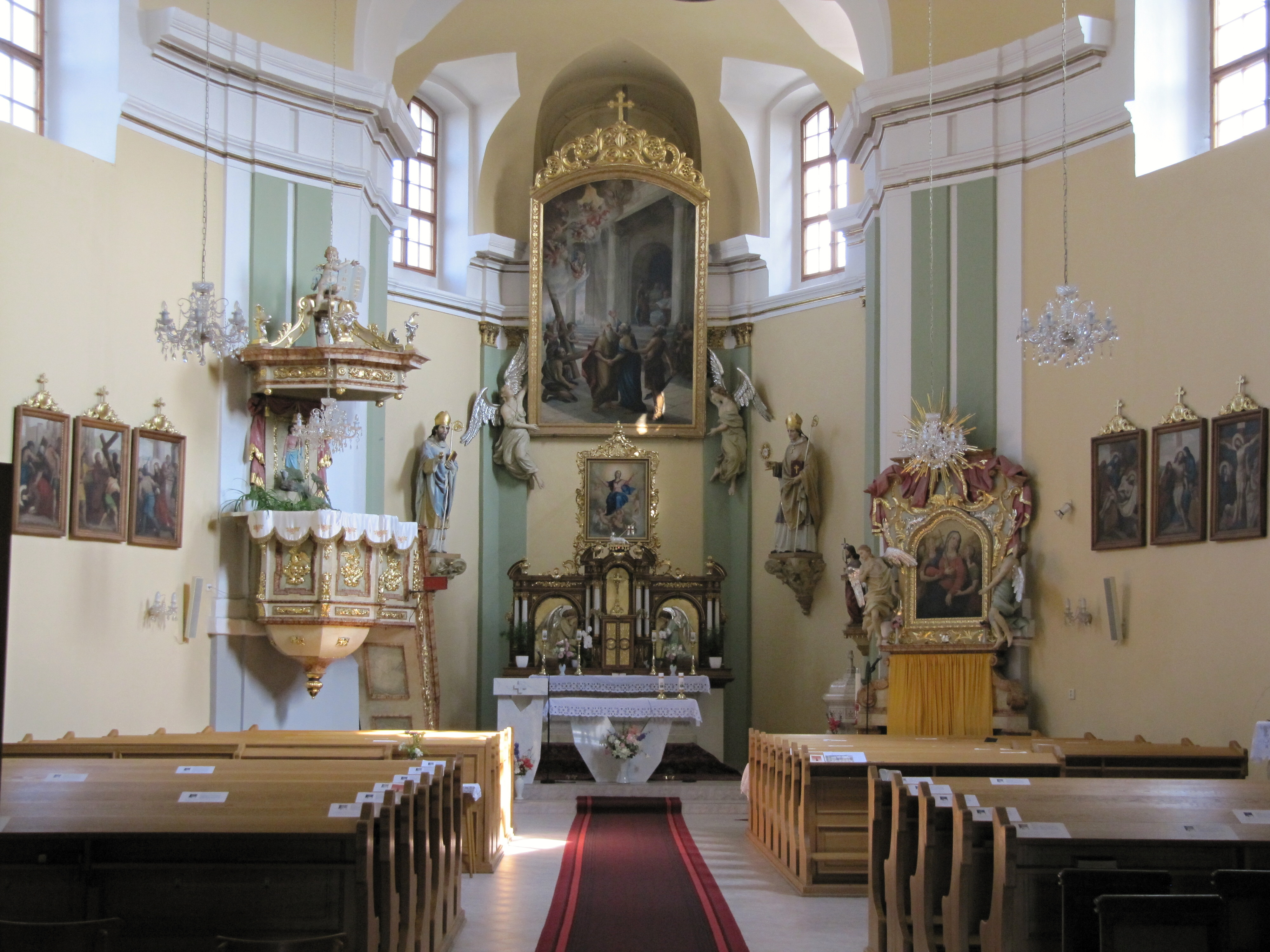 Těšetice in Olomouc District, Czech Republic. Church of St. Peter and Paul, interior.